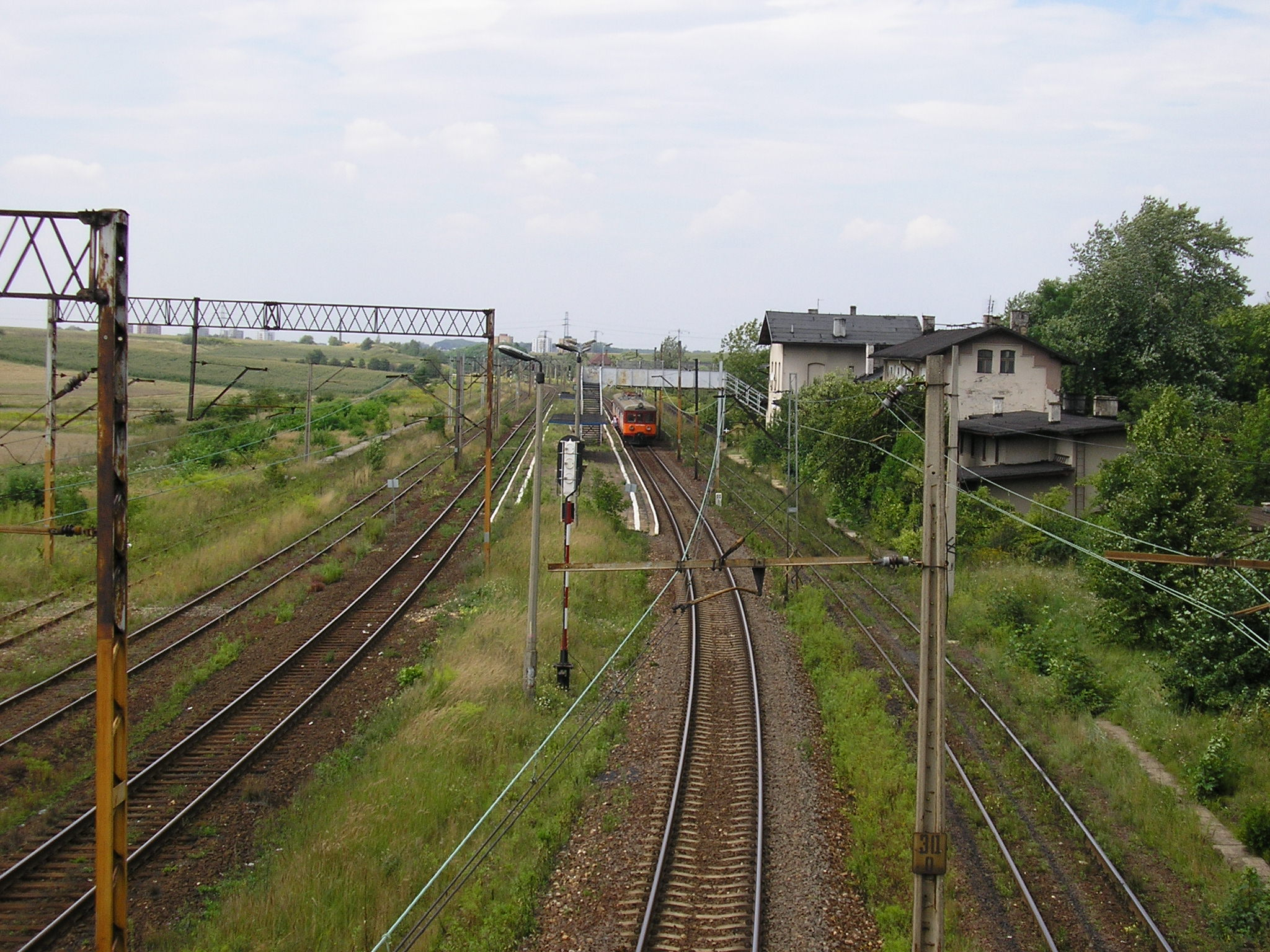 Platform and passage on Nakło Śląskie railway station